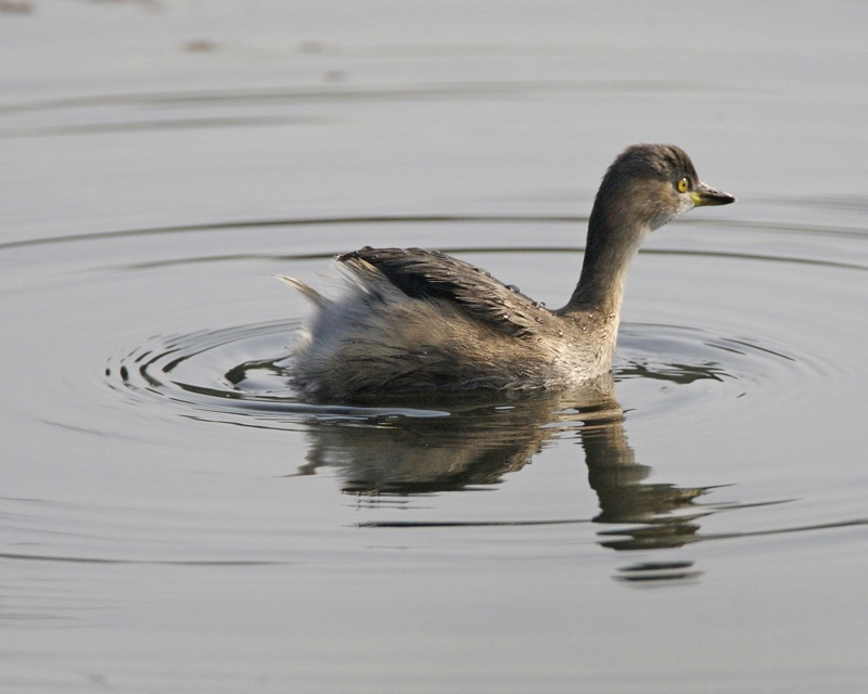 Little Grebe Tachybaptus ruficollis albescens - non breeding plumage. Keoladeo National Park, Rajastan, India